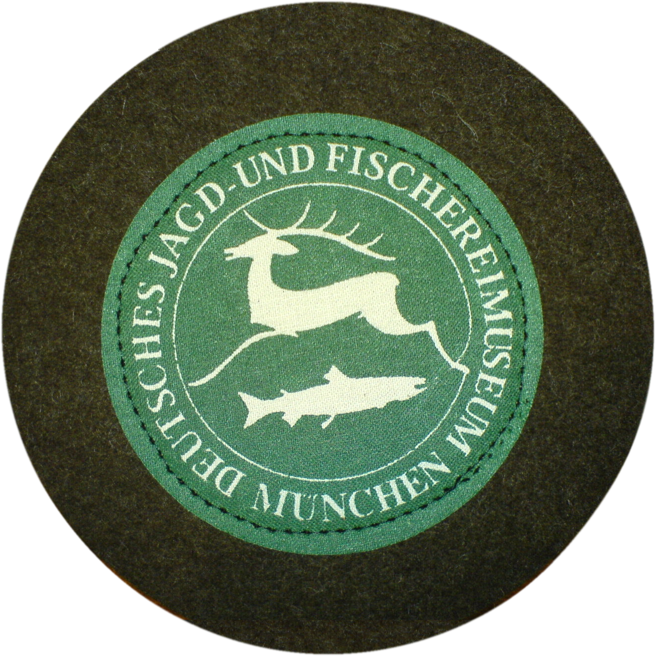 Logo of Deutsches Jagd- und Fischereimuseum in Munich, Germany. This is the retouched version of an original here.